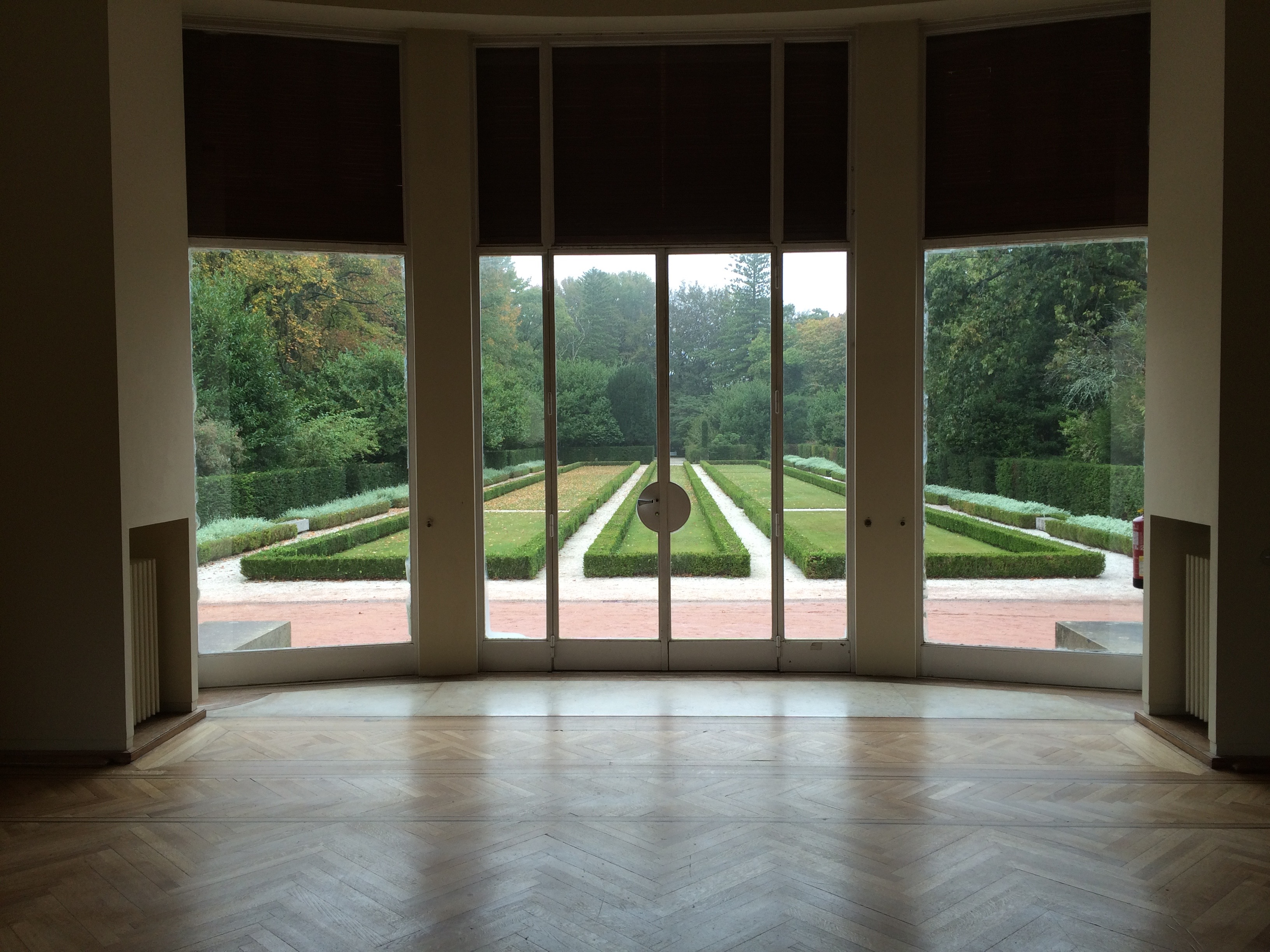 Casa de Serralves, view to the gardens